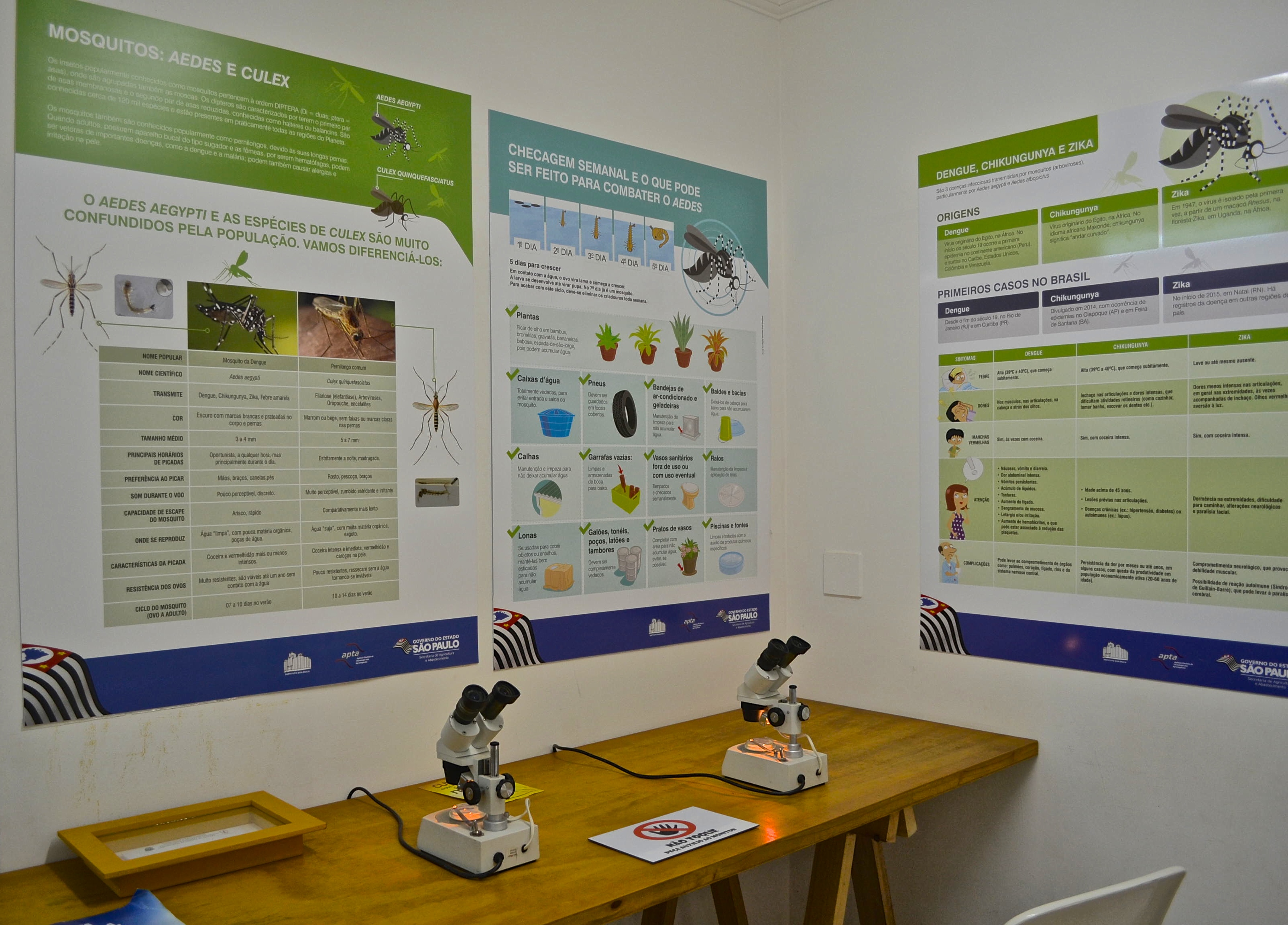 Parte interativa do Museu do Instituto Biológico - exposição Planeta Inseto, em São Paulo (SP), Brasil.